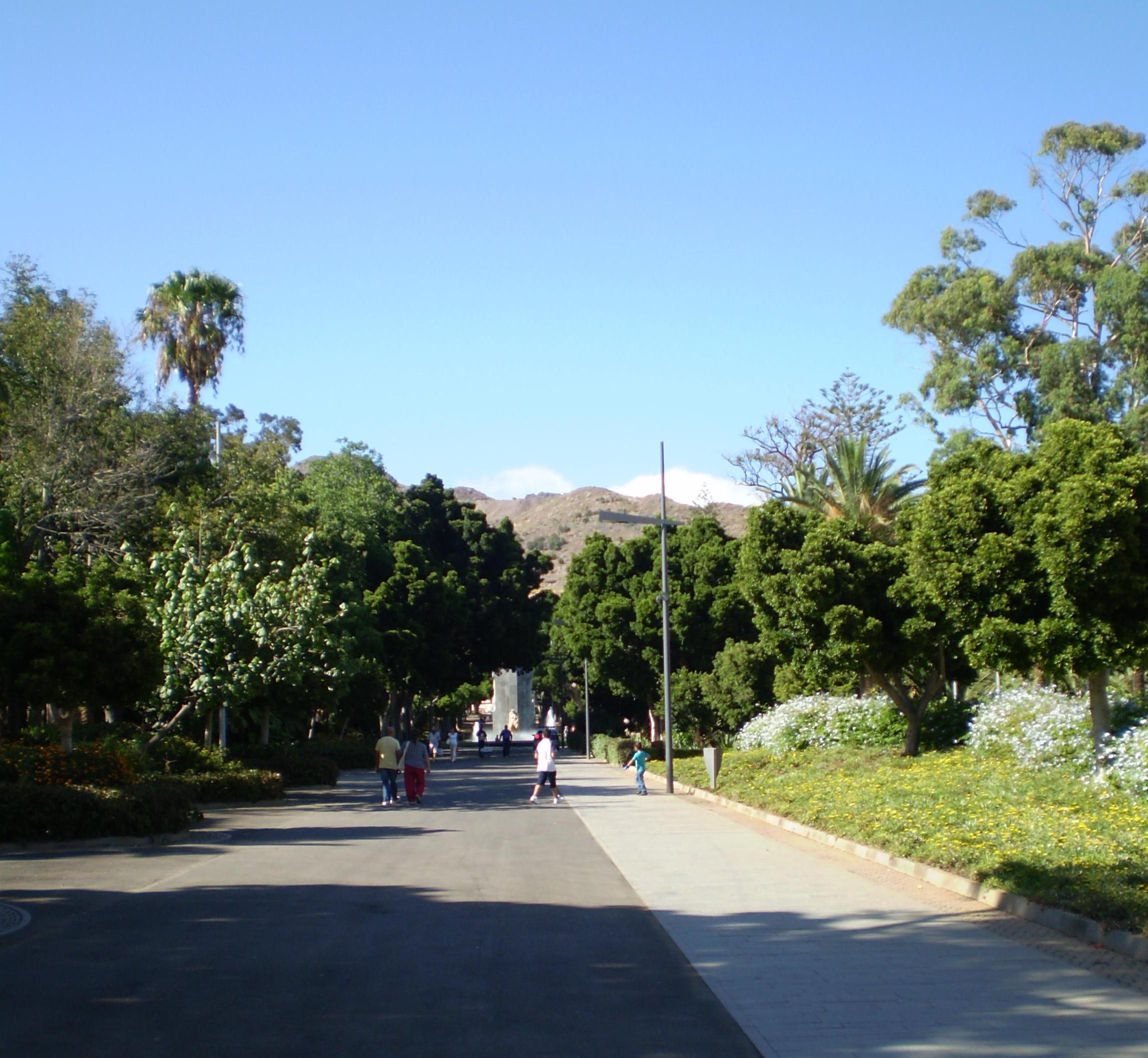 García Sanabria Park. Santa Cruz de Tenerife (Tenerife). Canary Islands, Spain.